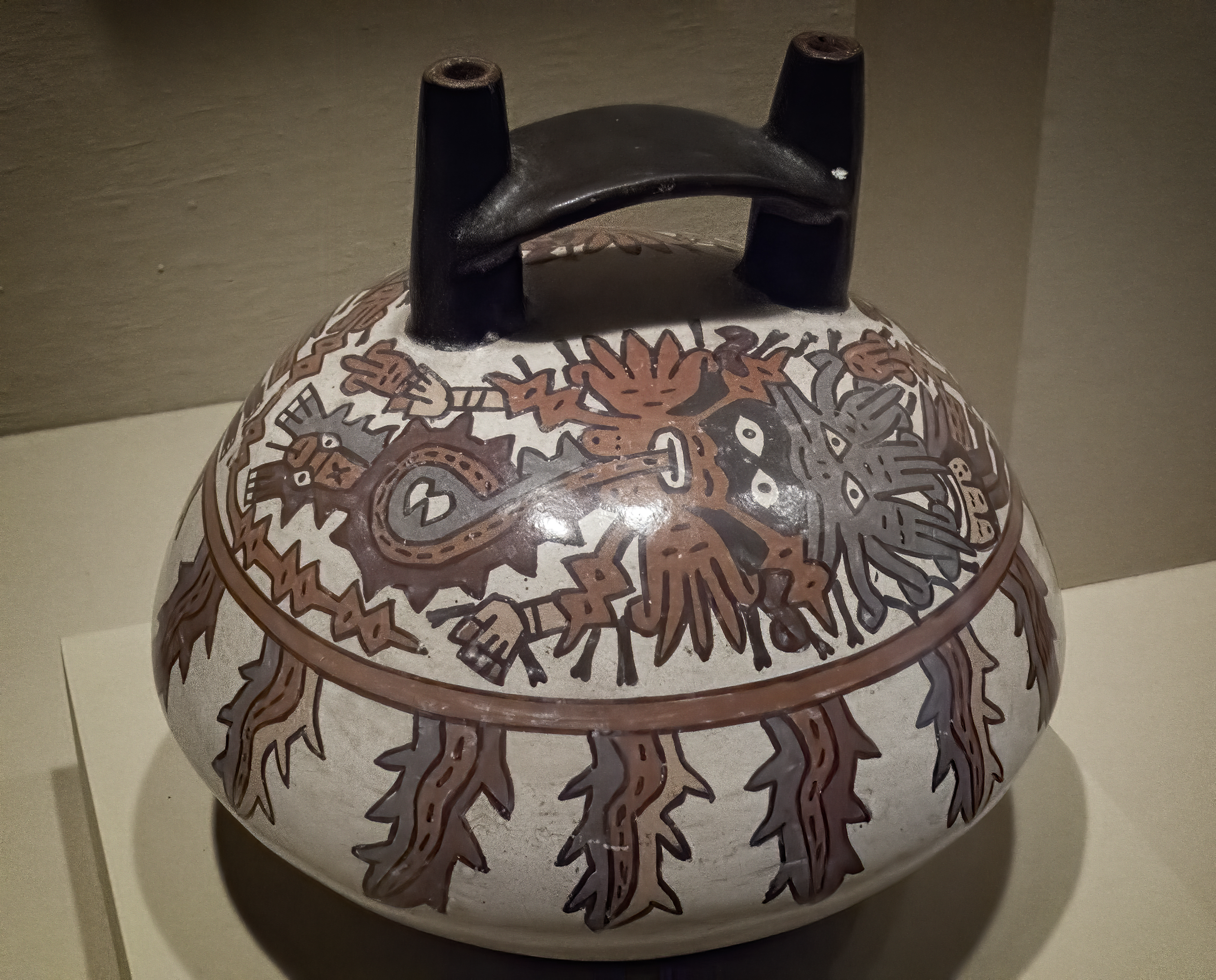 Nasca Double Spout Vessel with Flying Shaman Figure 100-700 CE at the Portland Art Museum